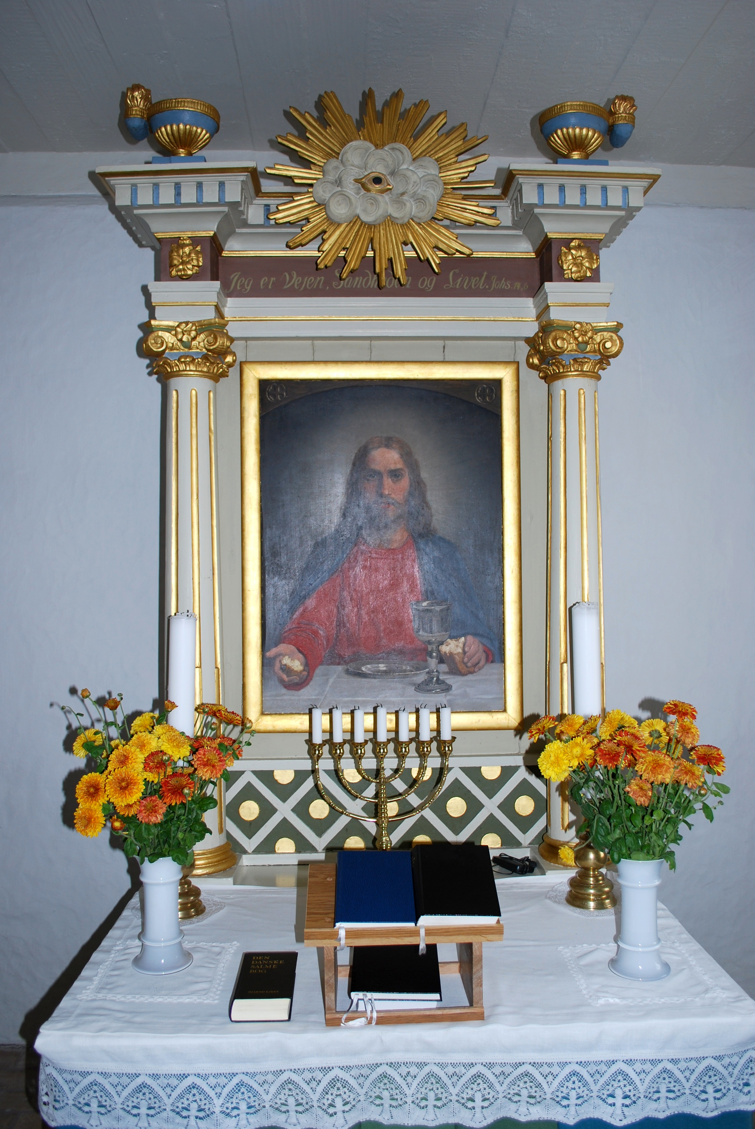 Altarpiece - Church of Hjarnø - Denmark